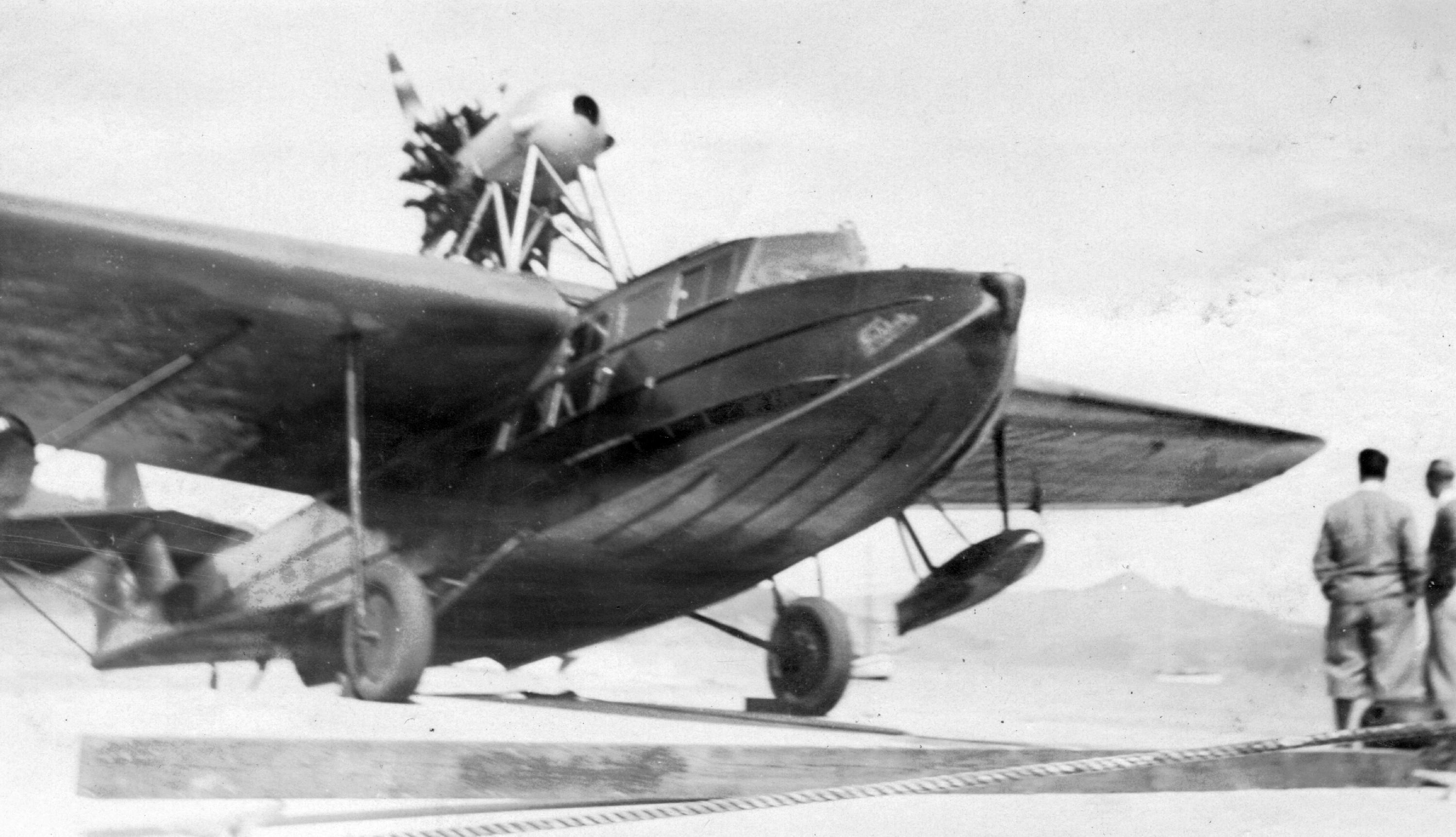 Air Ferries Fokker F.11a on San Francisco ramp